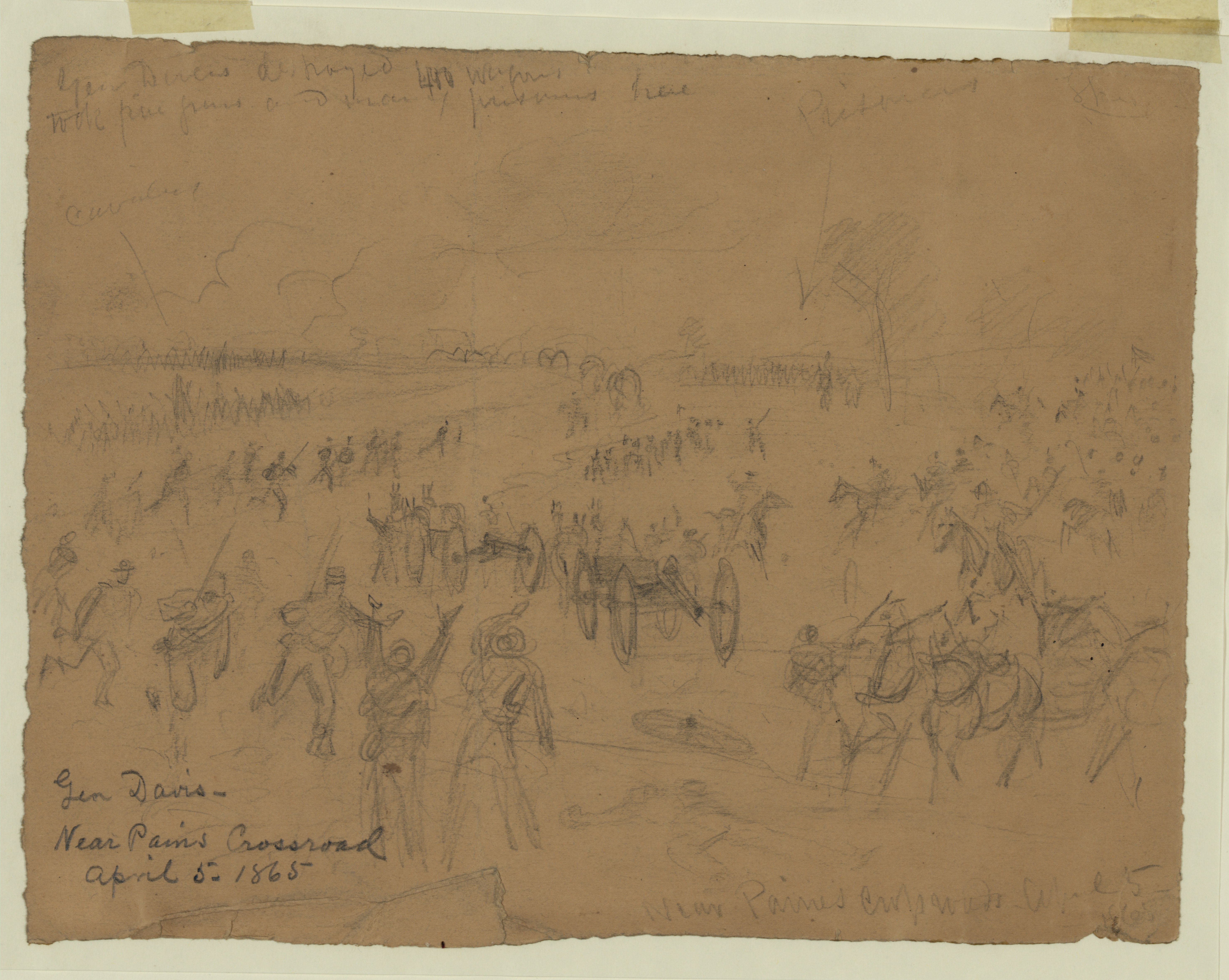 Title: Gen. Davis [sic]-Near Paines Crossroad April 5, 1865 Abstract/medium: 1 drawing on tan paper : pencil ; 17.9 x 23.9 cm. (sheet).